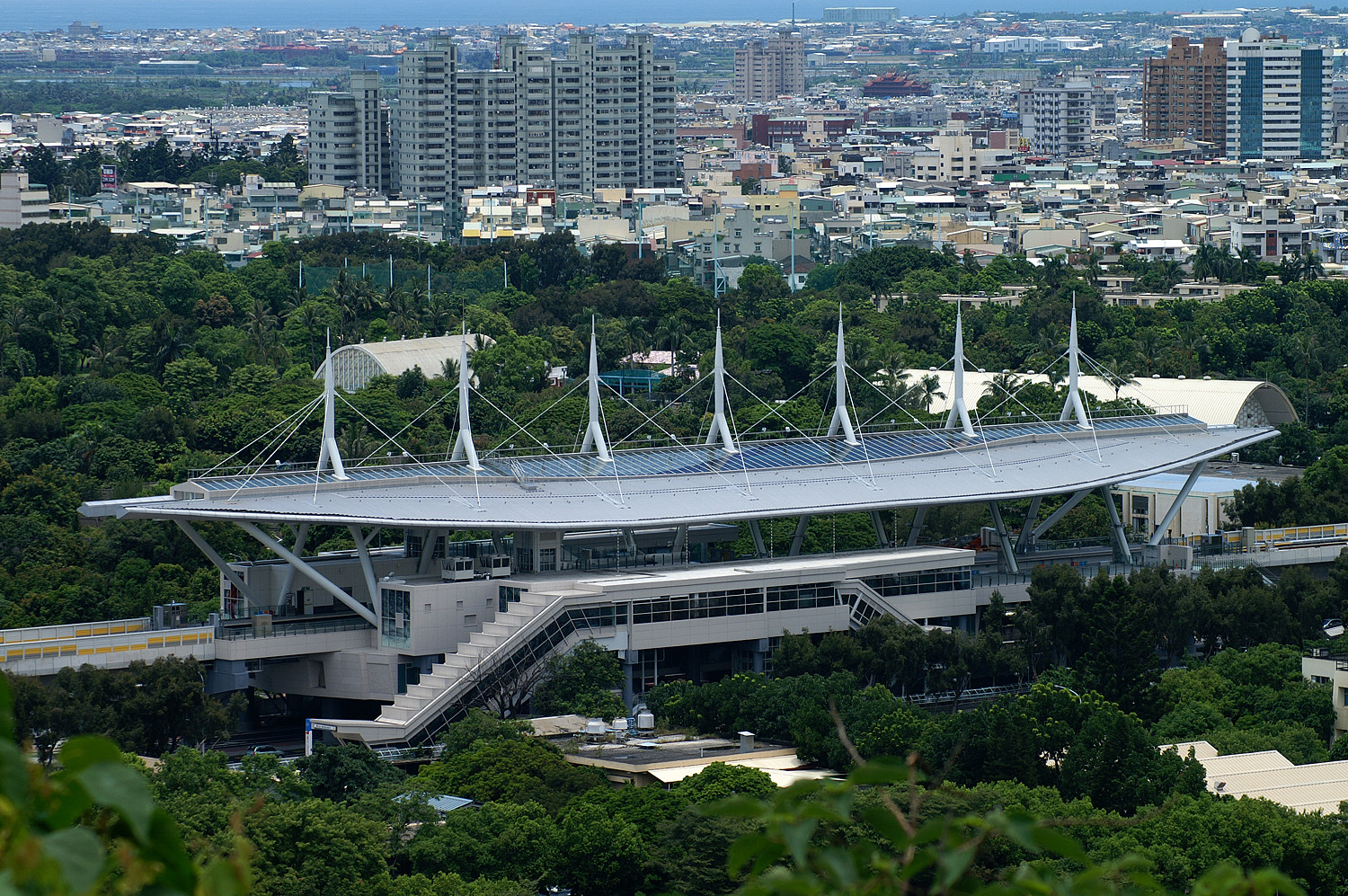 World Game Station, KMRT.